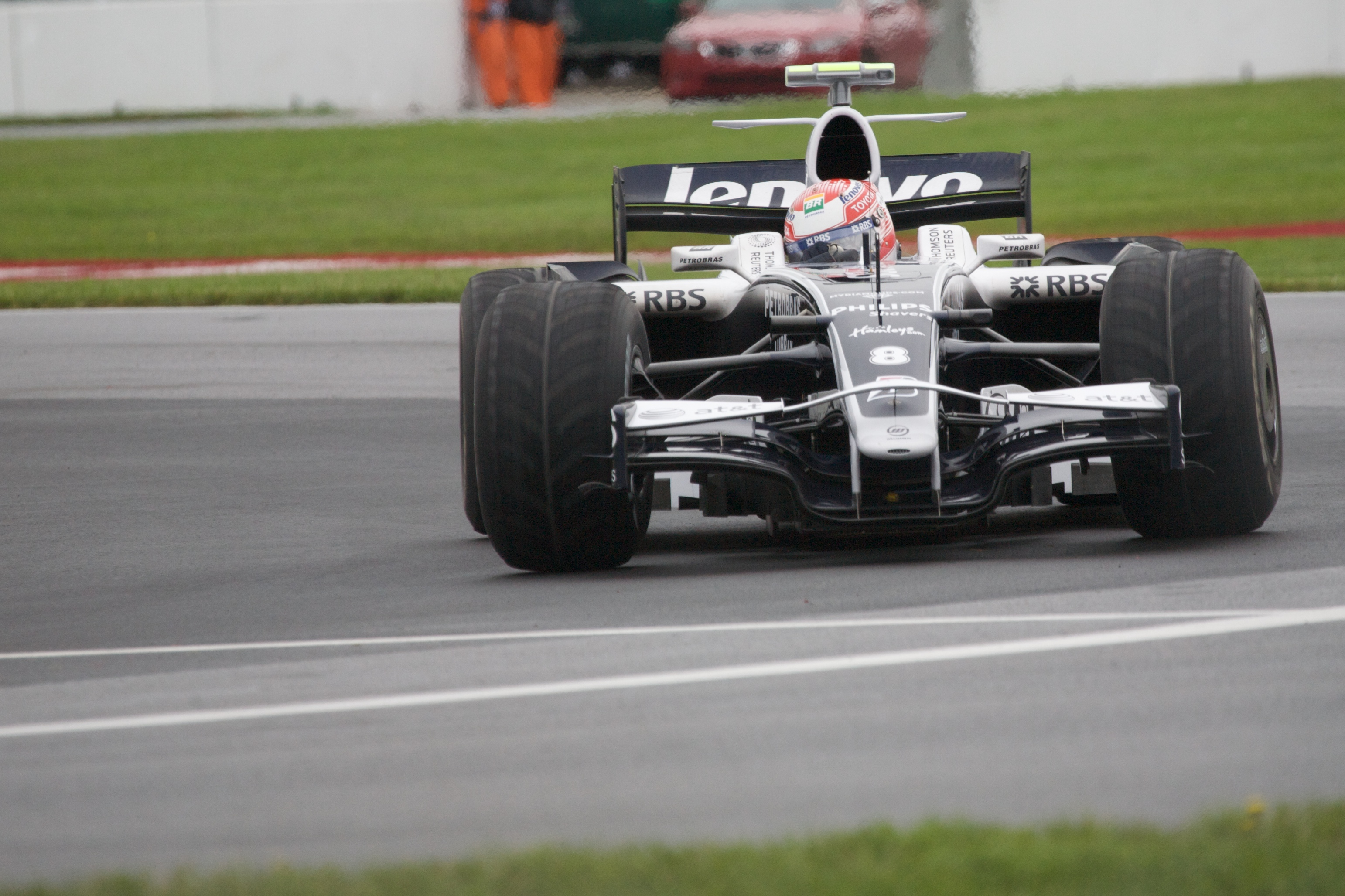 Kazuki Nakajima driving for WilliamsF1 at the 2008 Canadian Grand Prix.